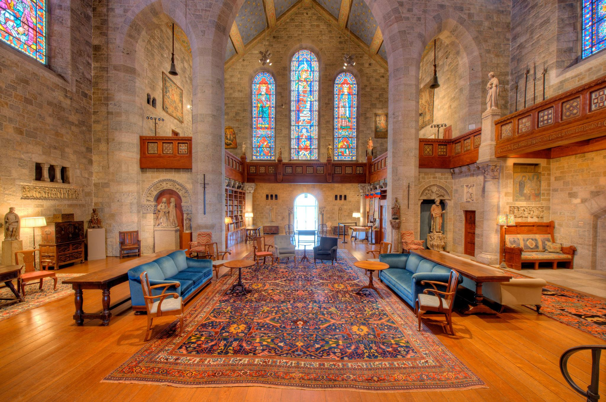 A wide-angled view of the Great Room